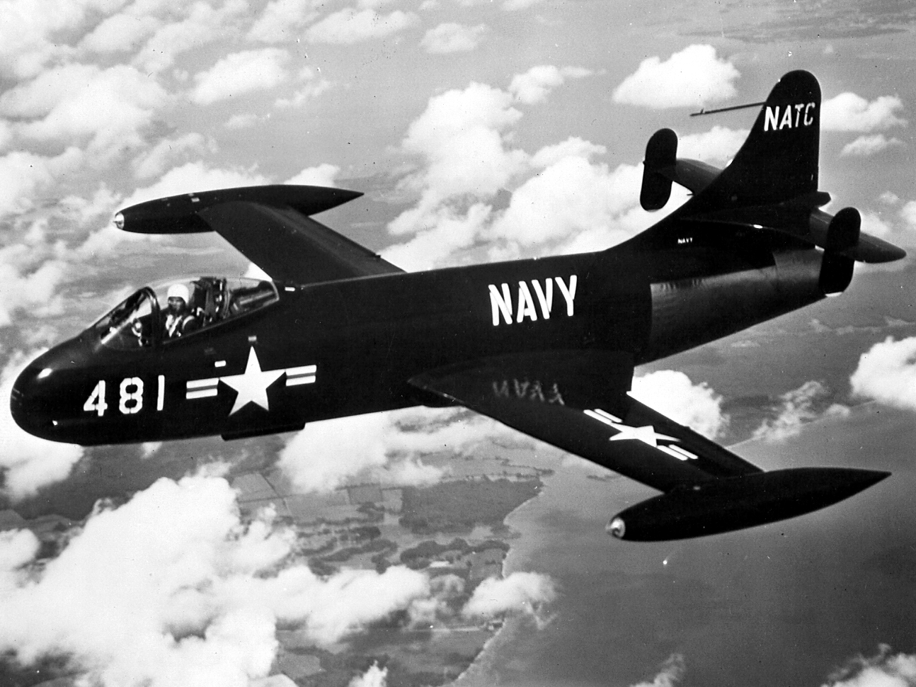 A U.S. Navy Vought F6U-1 Pirate (BuNo 122481) from the Naval Air Test Center at Naval Air Station Patuxent River, Maryland (USA), in flight.